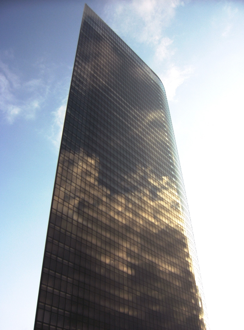 Dentsu_Shiodome_Building Tokyo Japan